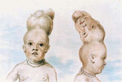 Two headed boy of bengal who had the first known documented case of craniopagus parasiticus.